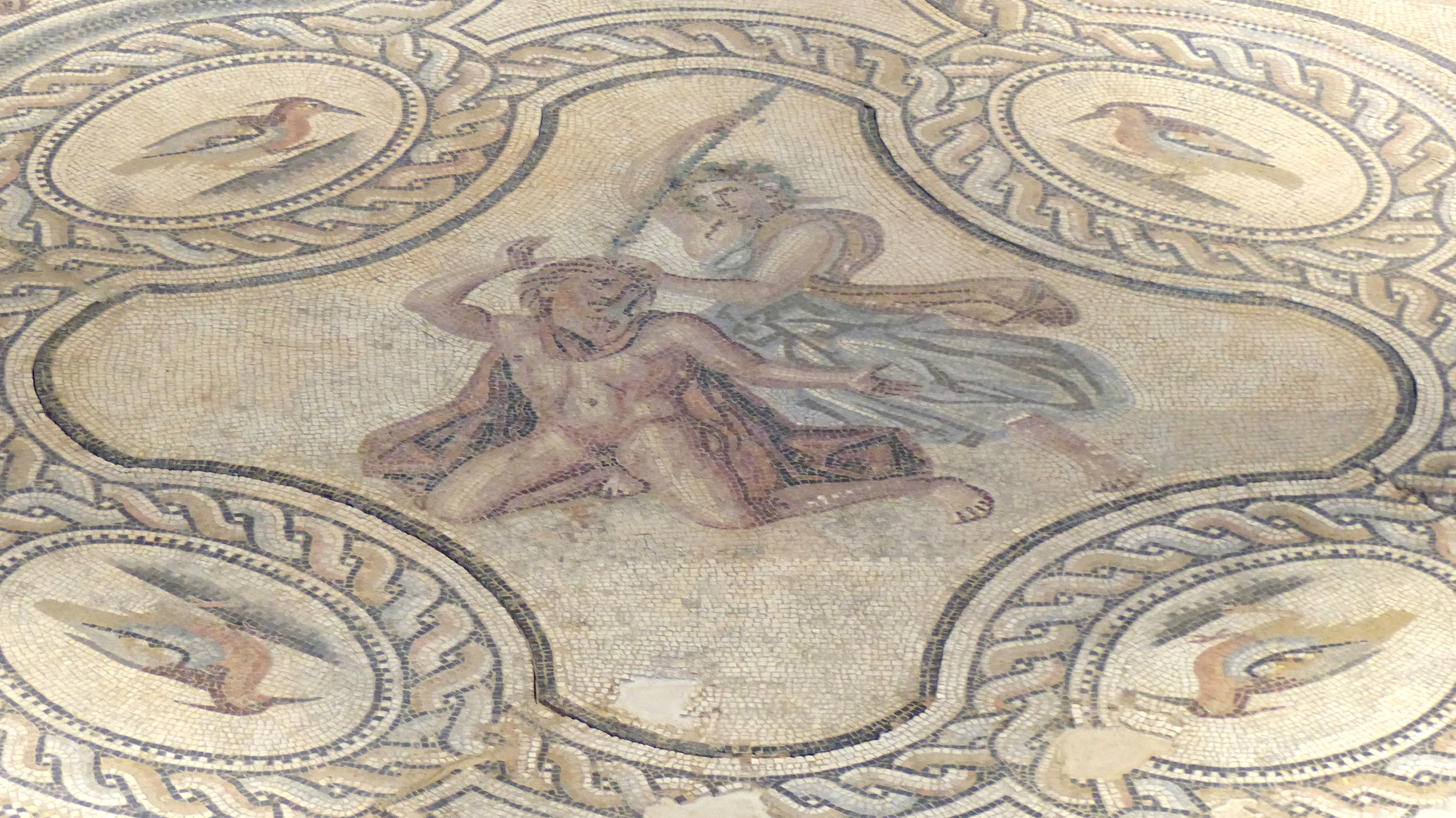 Nîmes (Gard, Occitanie, France), Romanity museum, mosaic of the second century, called "of Pentheus" because illustrating the legend of Pentheu adapted to the theater by Euripide, coming from the room reception of an important character and discovered Jean Jaurès avenue in Nîmes.